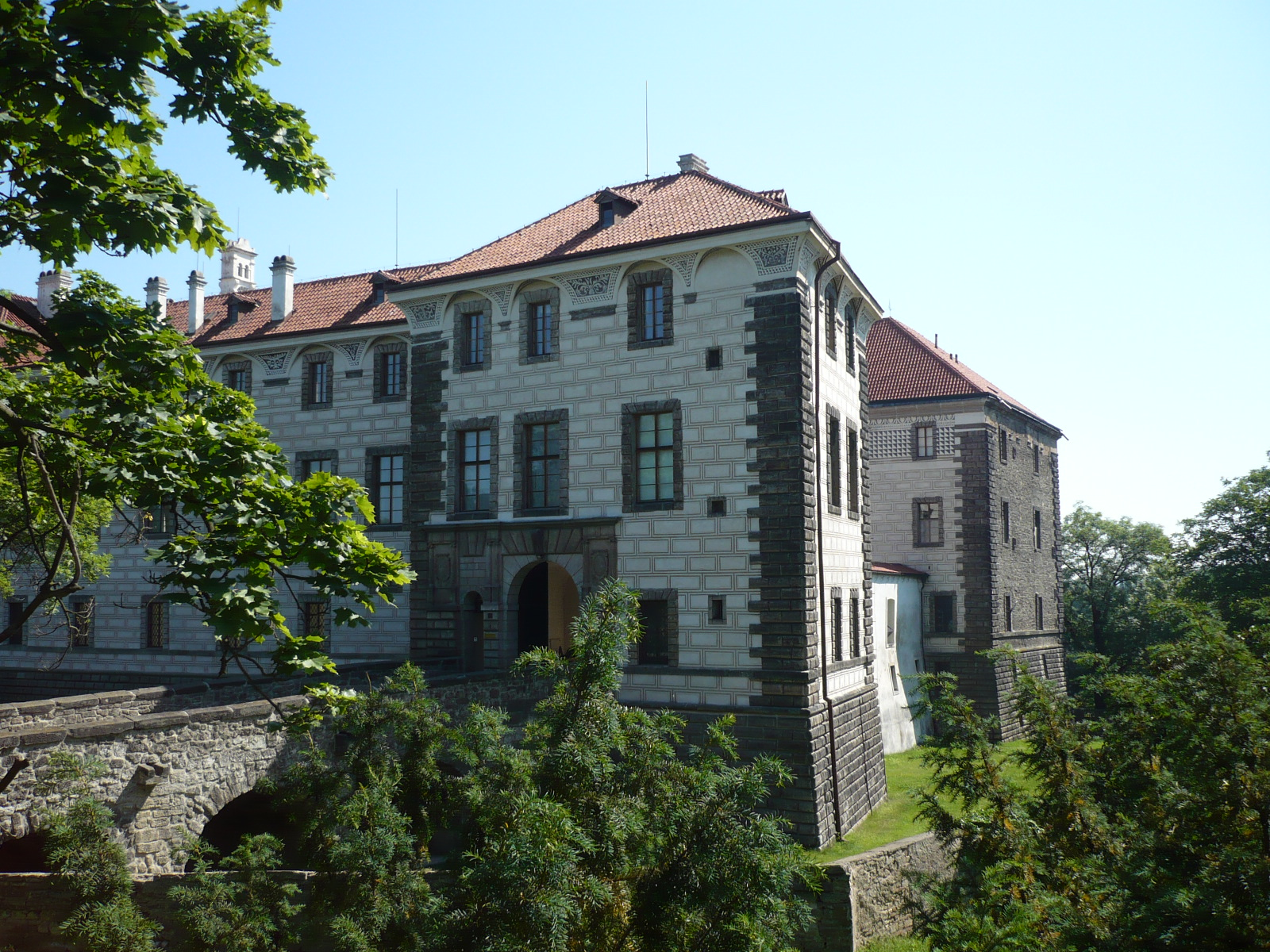 Nelahozeves Castle, Central Bohemian Region, the Czech Republic